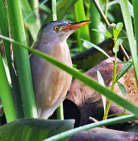 Yellow Bittern Ixobrychus sinensis in Kolkata, West Bengal, India.